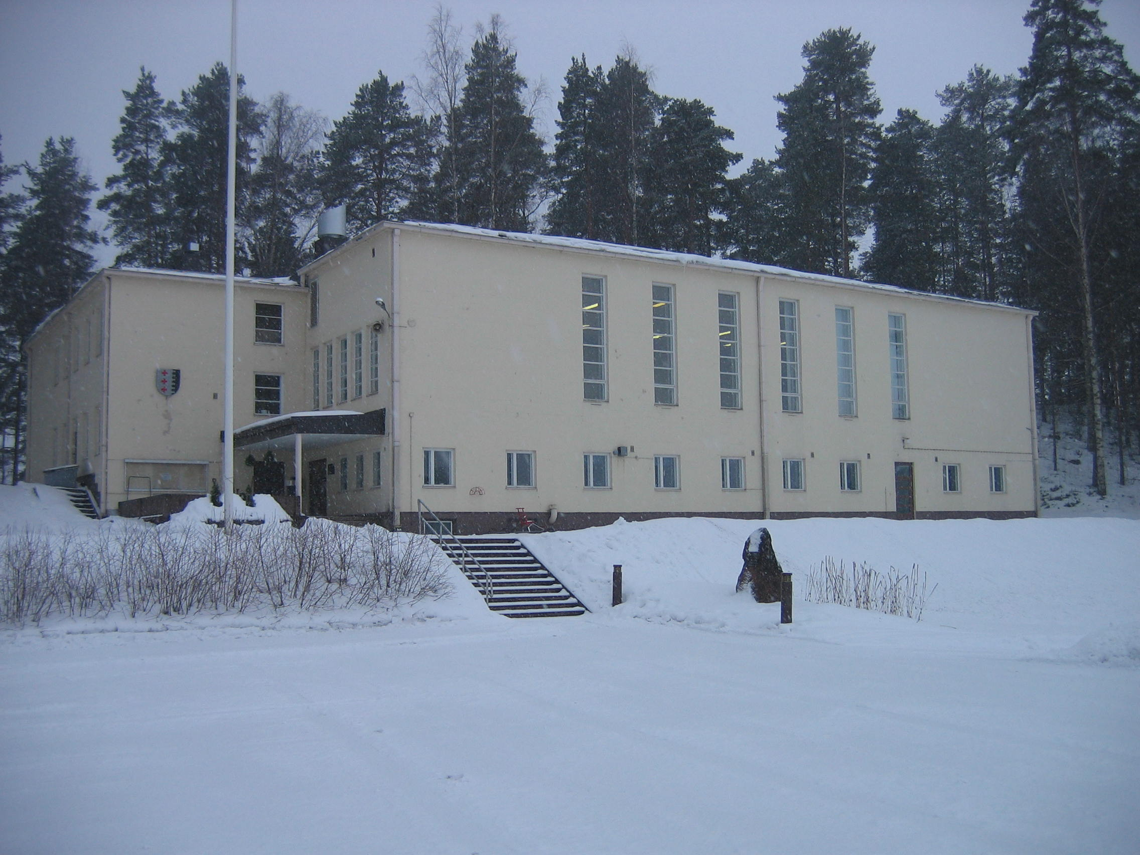 The Harjulinna building, now the central office of the municipality Parikkala, Finland